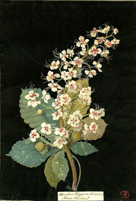 Aesculus hippocastanum L. - paper collage botanical